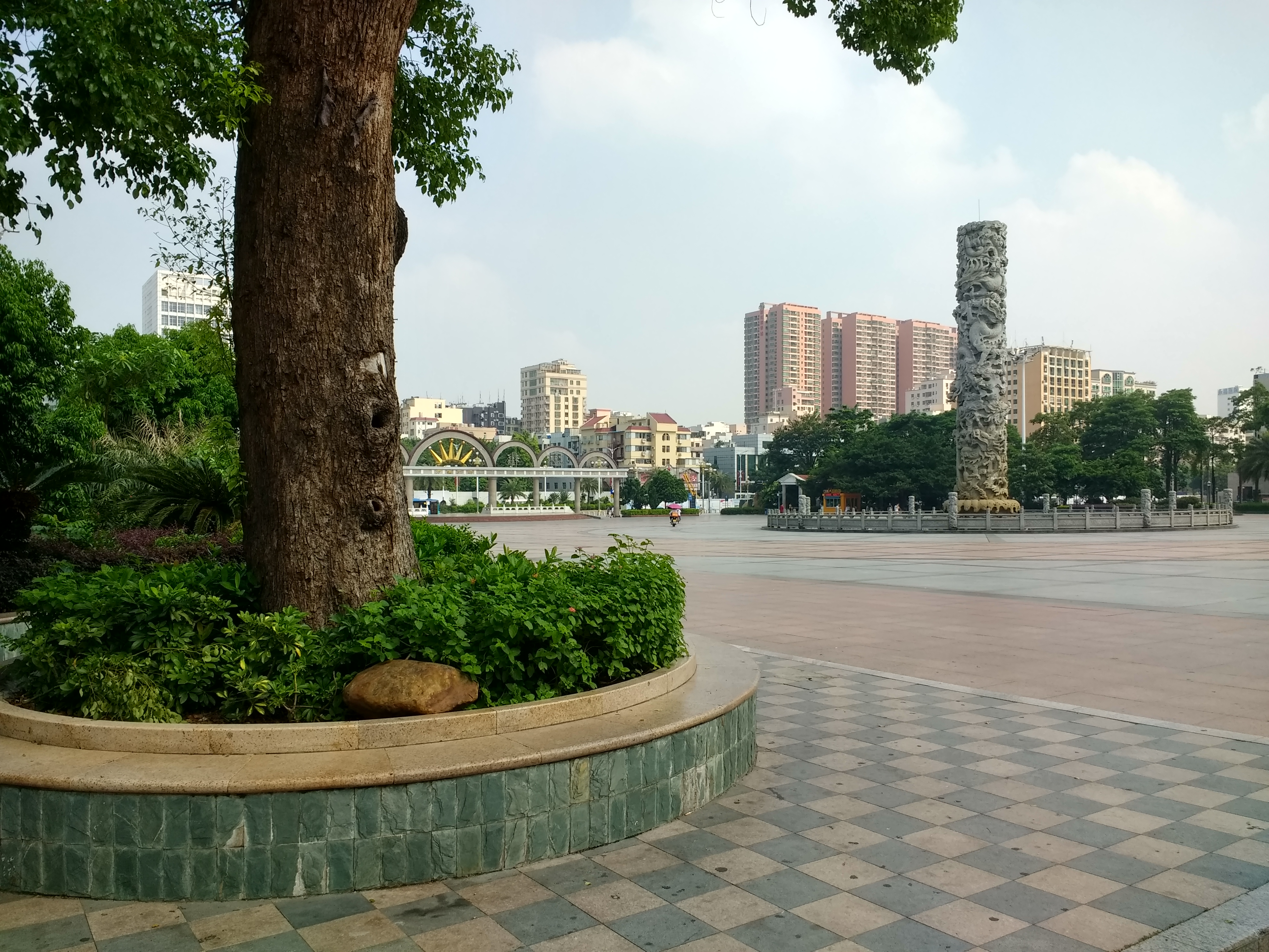 Wanfu Plaza (万福广场) in Fuyong Subdistrict, Bao'an District, Shenzhen, China.